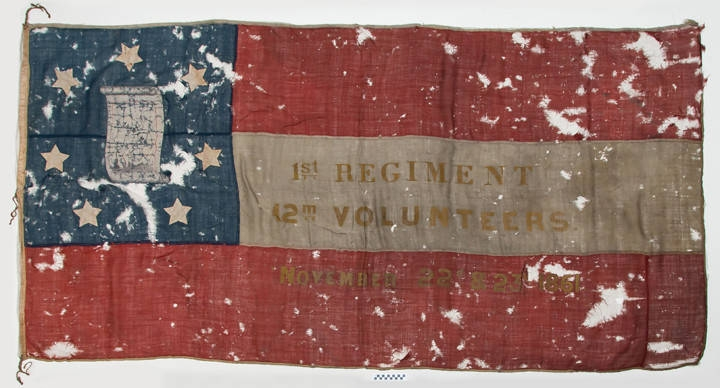 1st Alabama Infantry flag, Alabama Department of Archives and History